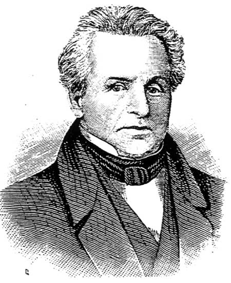 Samuel Fowler, US Representative from New Jersey